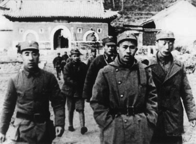 1937 Lin Biao Ren Bishi Nie Rongzhen 1937年秋，在山西抗战前线。前排左起：林彪、任弼时、聂荣臻